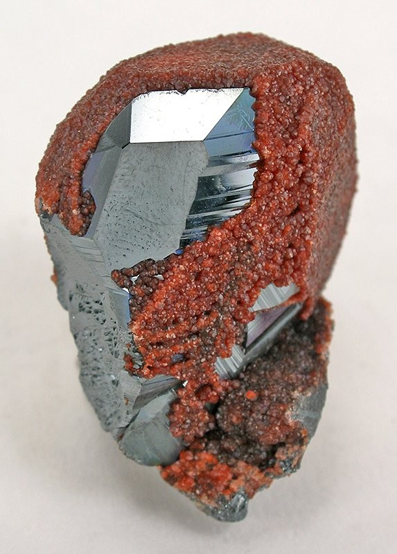 Hematite, Andradite Locality: Wessels Mine (Wessel's Mine), Hotazel, Kalahari manganese fields, Northern Cape Province, South Africa (Locality at ) A stunning miniature, of this classic combination of species for Wessels. Few are found with such a wonderful and aesthetic combination of the garnet coating on hematite! this is essentially one large,elongated crystal of hematite, complete all around save for small contacts near the base. 4.2 x 2.8 x 2.4 cm This Photo was Photo of the Day - 15th Mar 2008